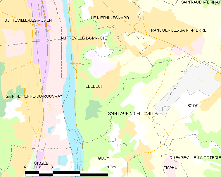 Map of French municipality Belbeuf